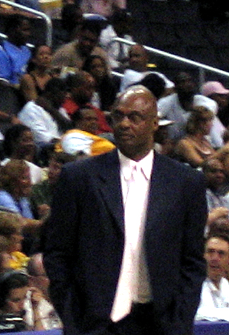 Joe Bryant coaching the Los Angeles Sparks, in a game against the San Antonio Silver Stars on July 3, 2006 at Staples Center.